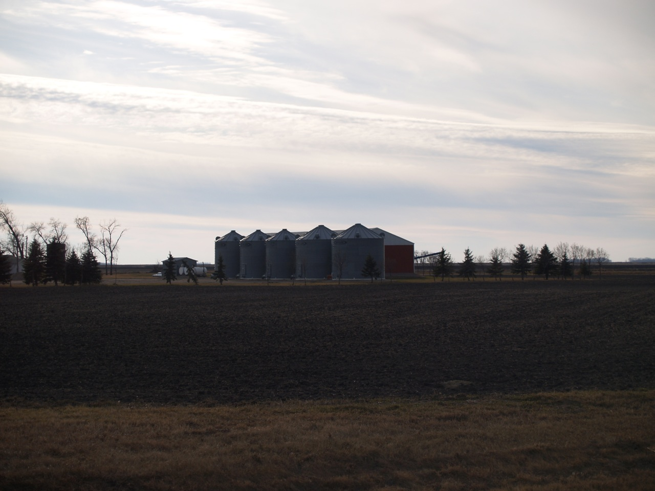 Grain Elevator, Eldred, Minnesota